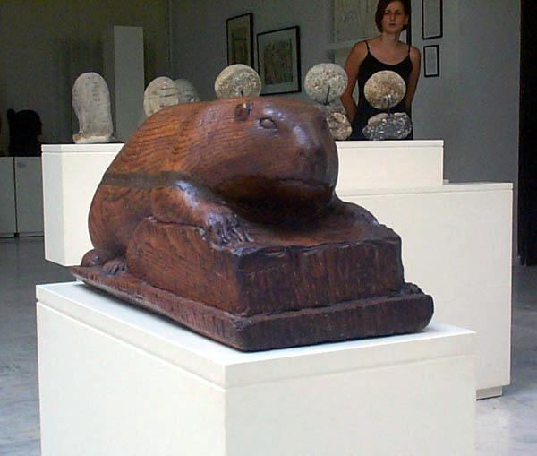 Groundhog, image from the Municipal Museum, Kavala, East Macedonia, Greece